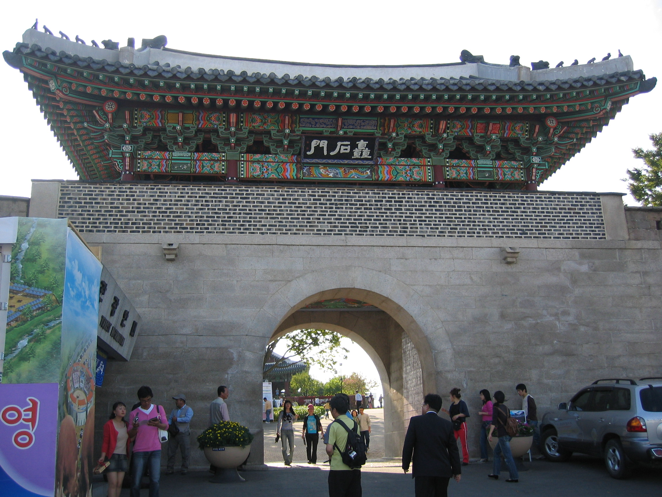 Jinju Fortress in Jinju, Gyeongsangnam-do, South Korea